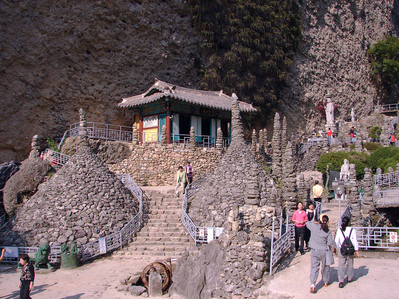 Tapsa (Buddhist Temple) and the Stone Pagodas of Maisan (Hourse Ear Mountain) in Jinan County, North Jeolla Province, South Korea.